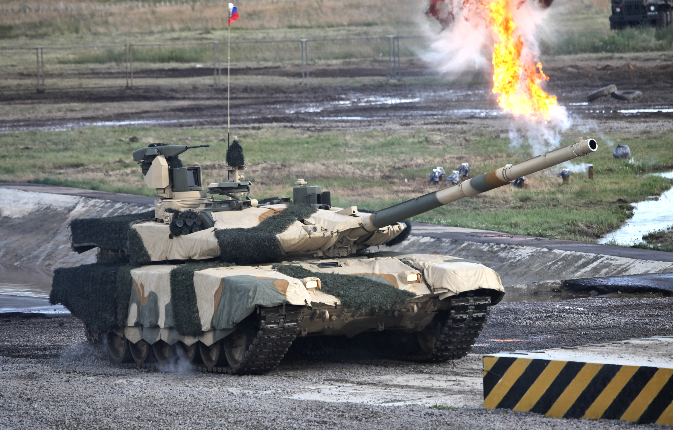 T-90MS main battle tank at Engineering Technologies 2012 international forum.